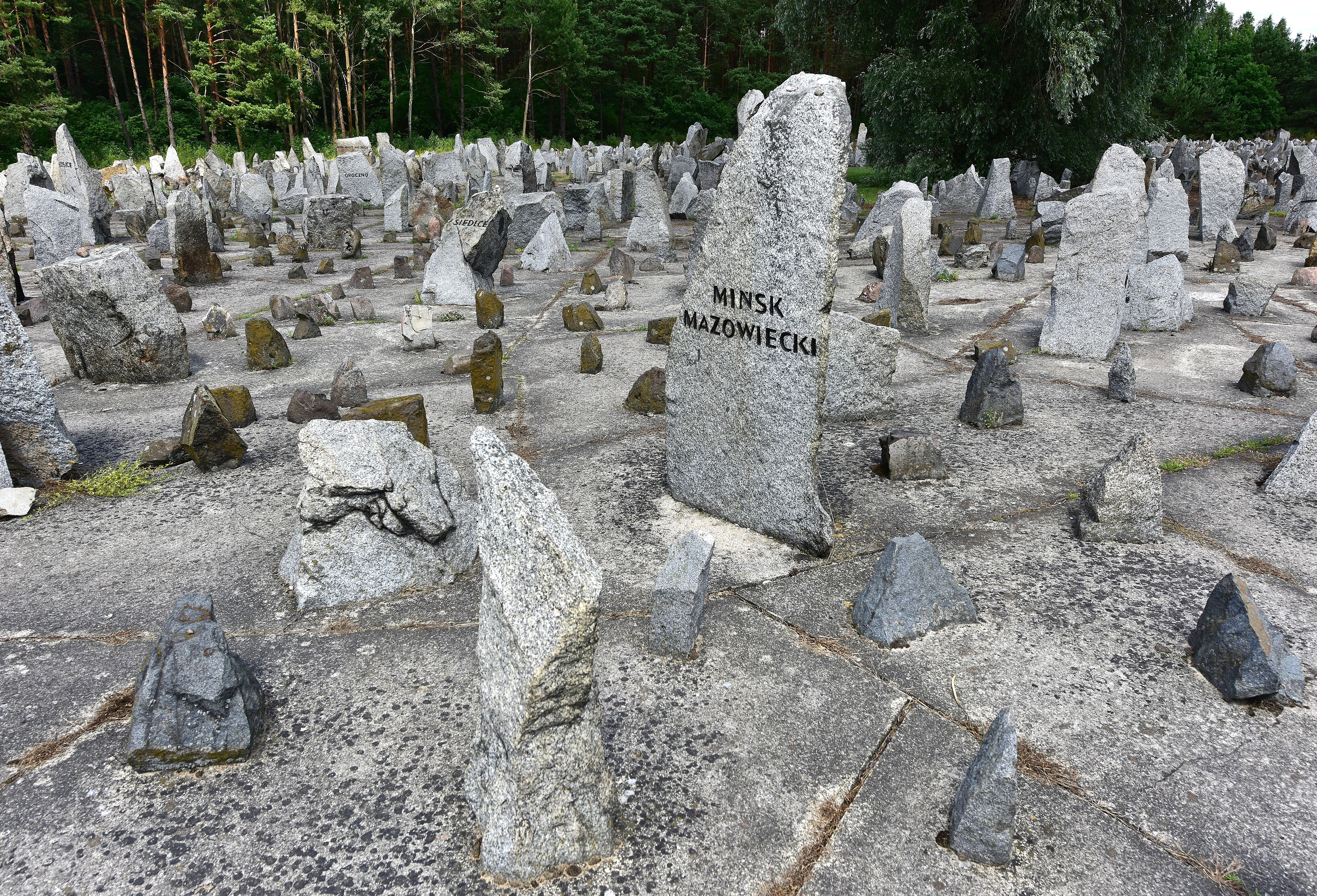 reblinka death camp memorial. A stone commemorating the murdered Jews from Mińsk Mazowiecki